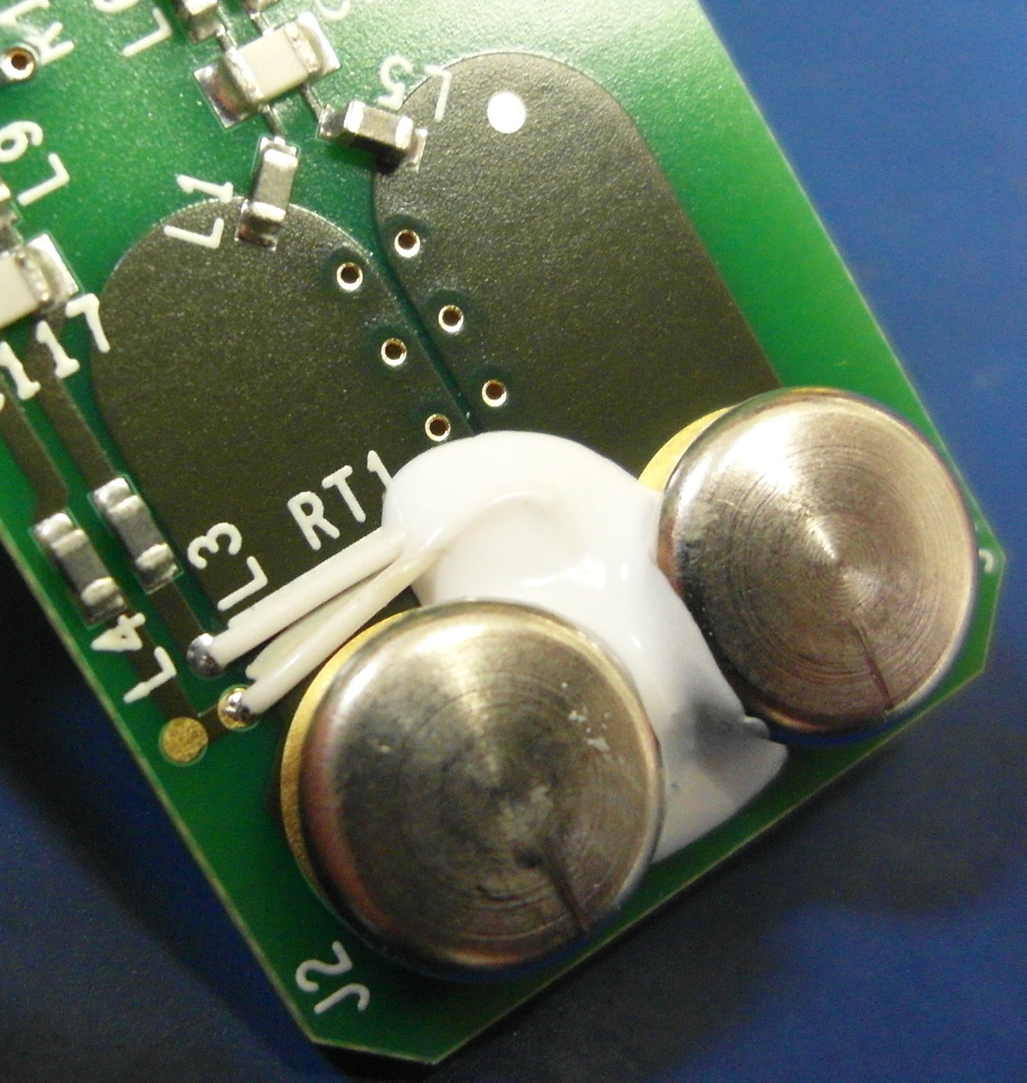 Cold Junction Compensation inside a Fluke CNX i3000 temperature module. Note the